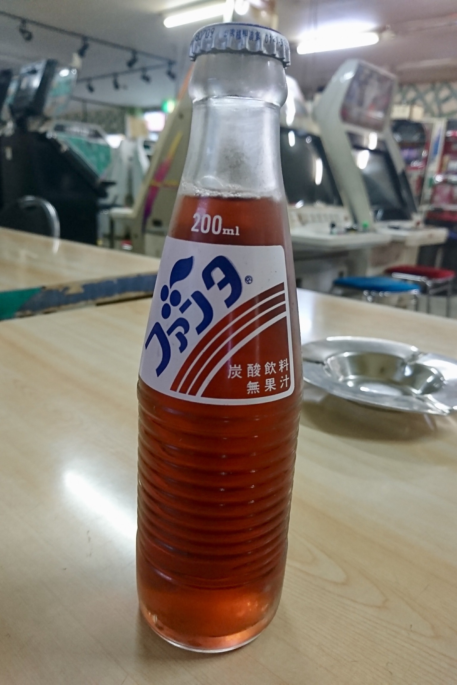 Fanta in bottle(for Japanese design)